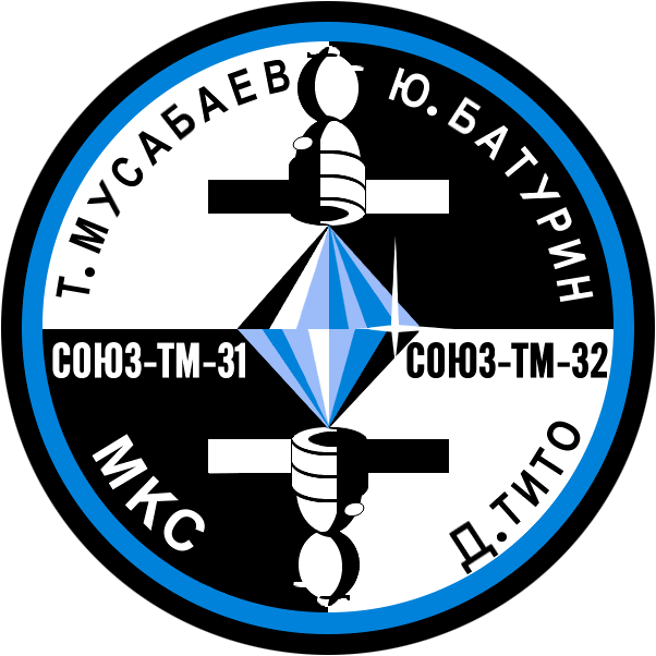 Official crew patch of Soyuz TM-32